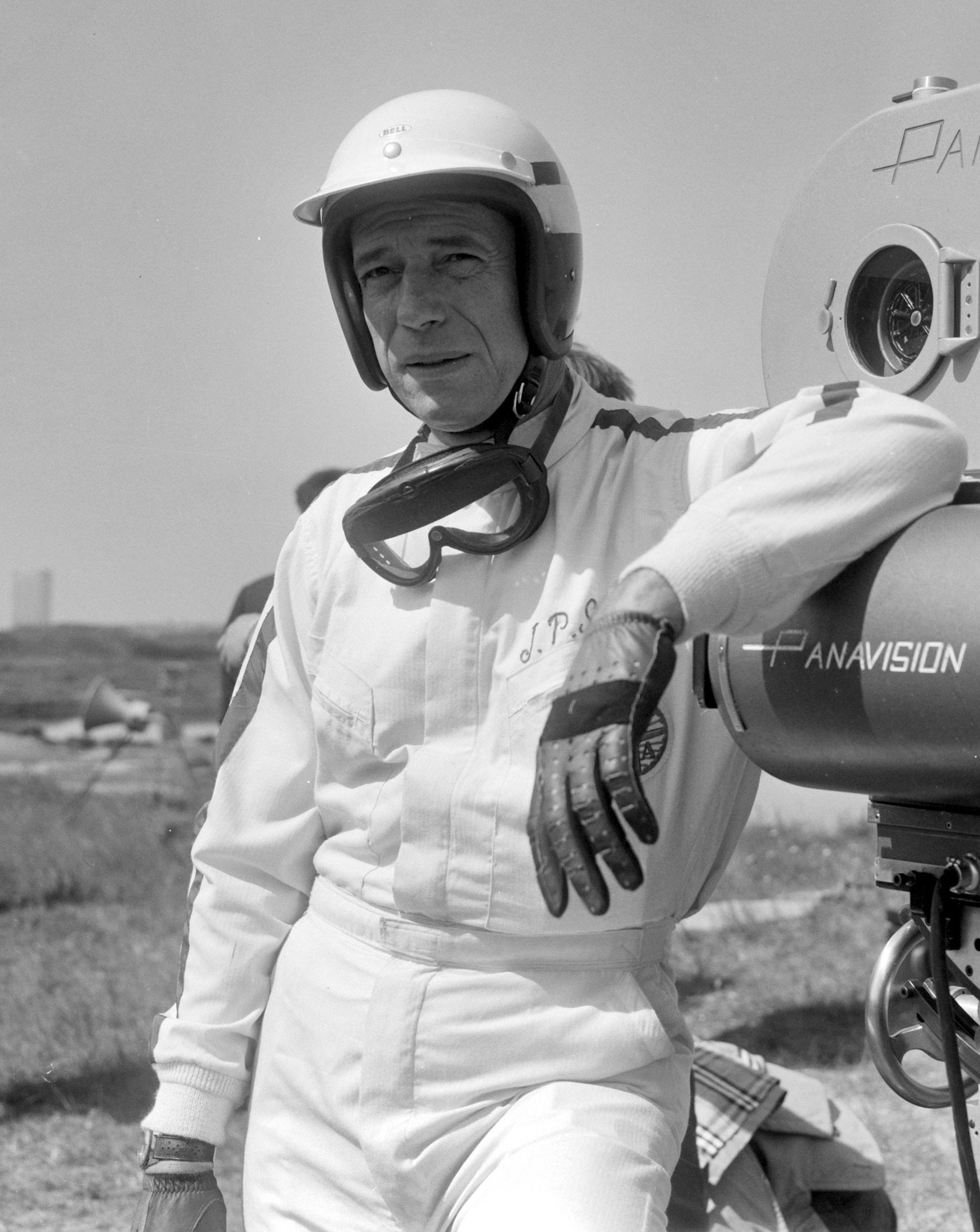 Cineramafilm "Grand Prix", filmopnames te Zandvoort, Yves Montand [als coureur Jean Paul Sarti] bij de filmcamera